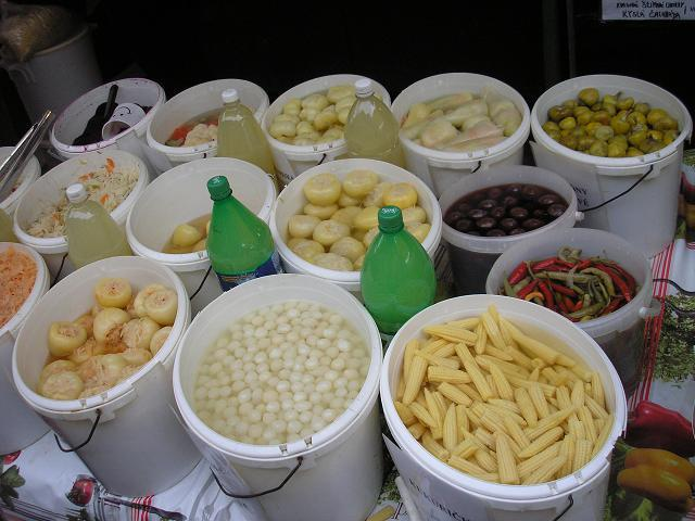 Slovak pickles